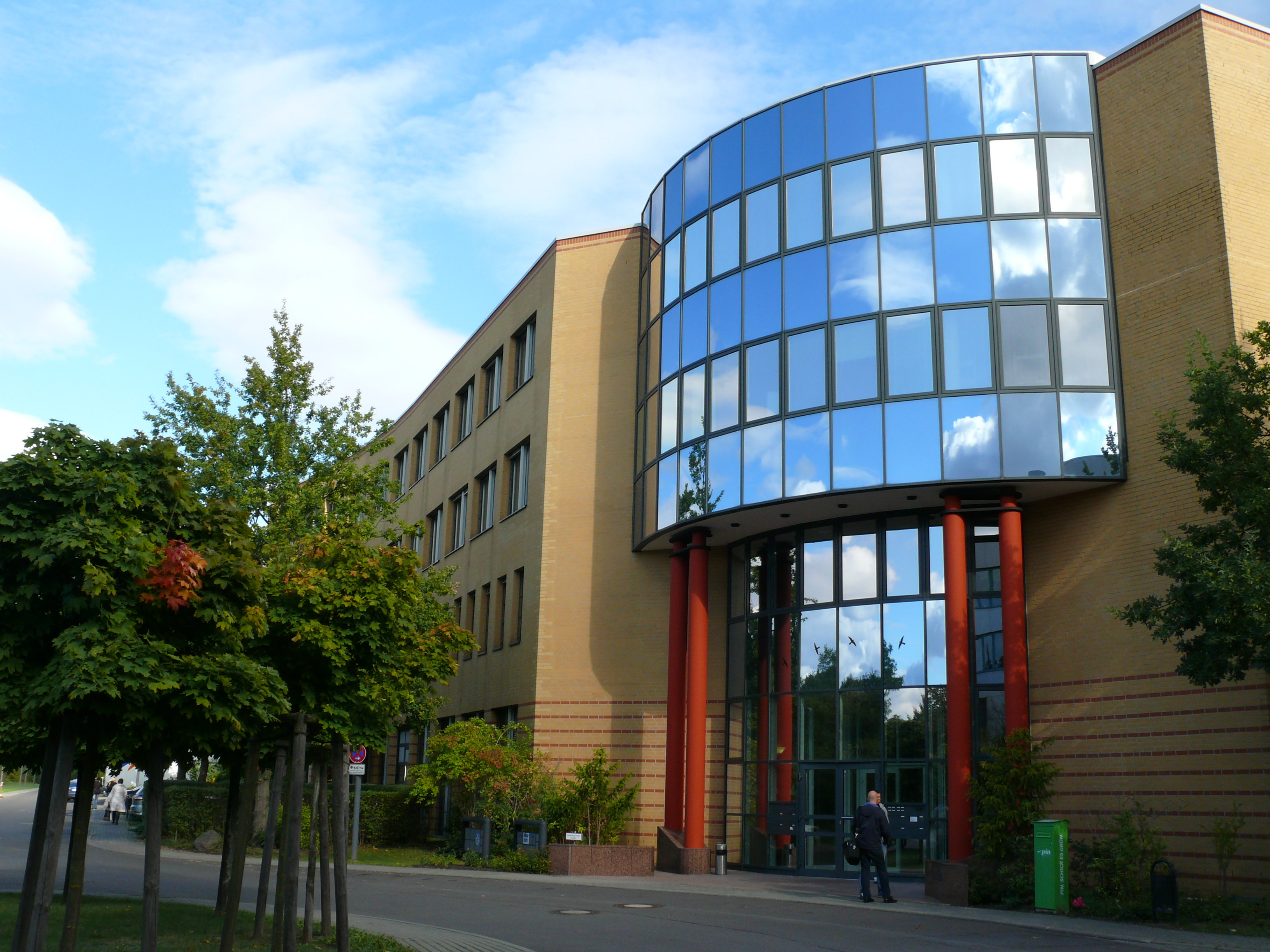 Berlin-Bohnsdorf Paradiesstraße Falkenbergpark